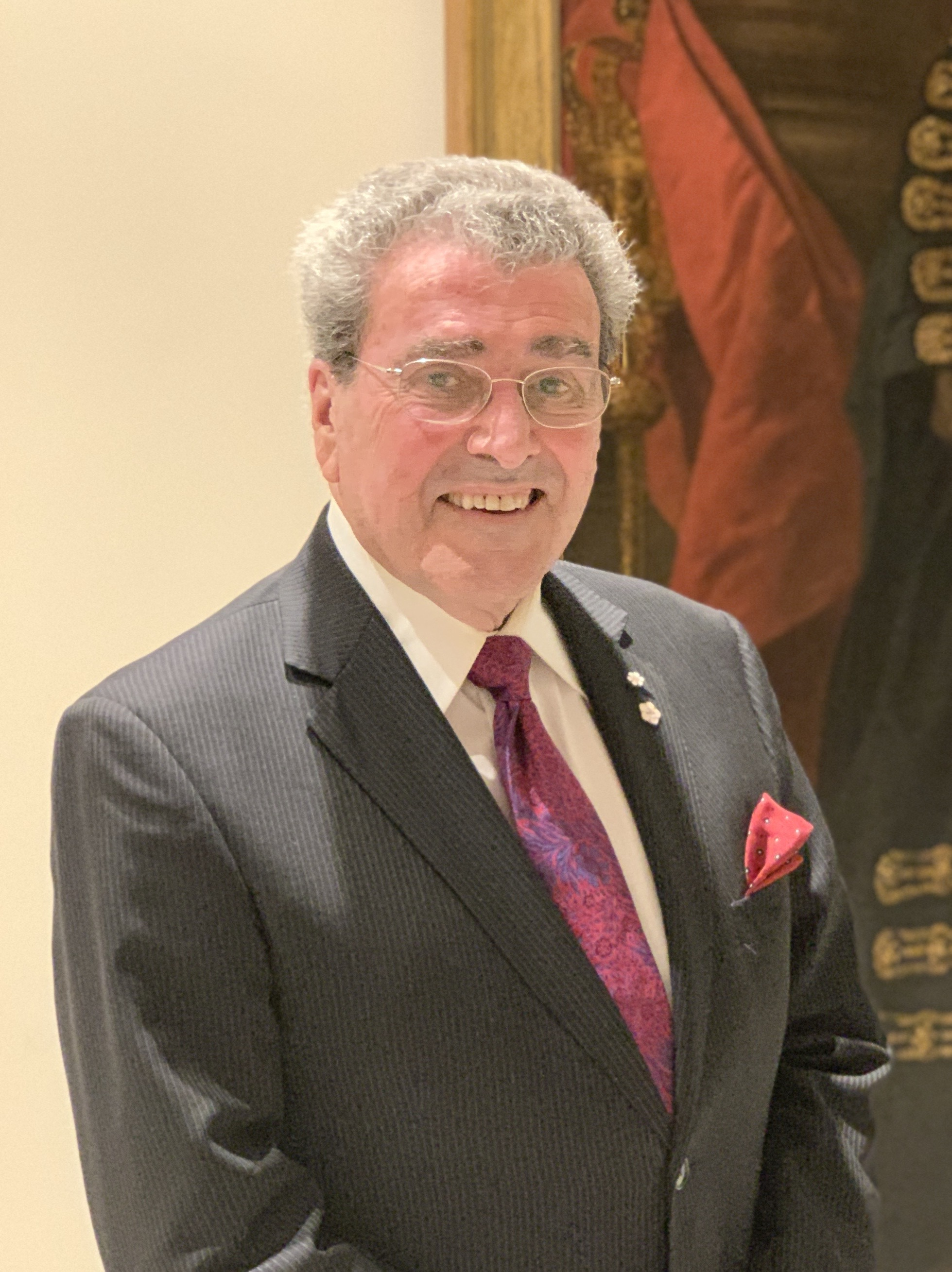 Thomas John Murray (Jock Murray), 2019. Taken at the Osler Club of London in the Royal College of Physicians